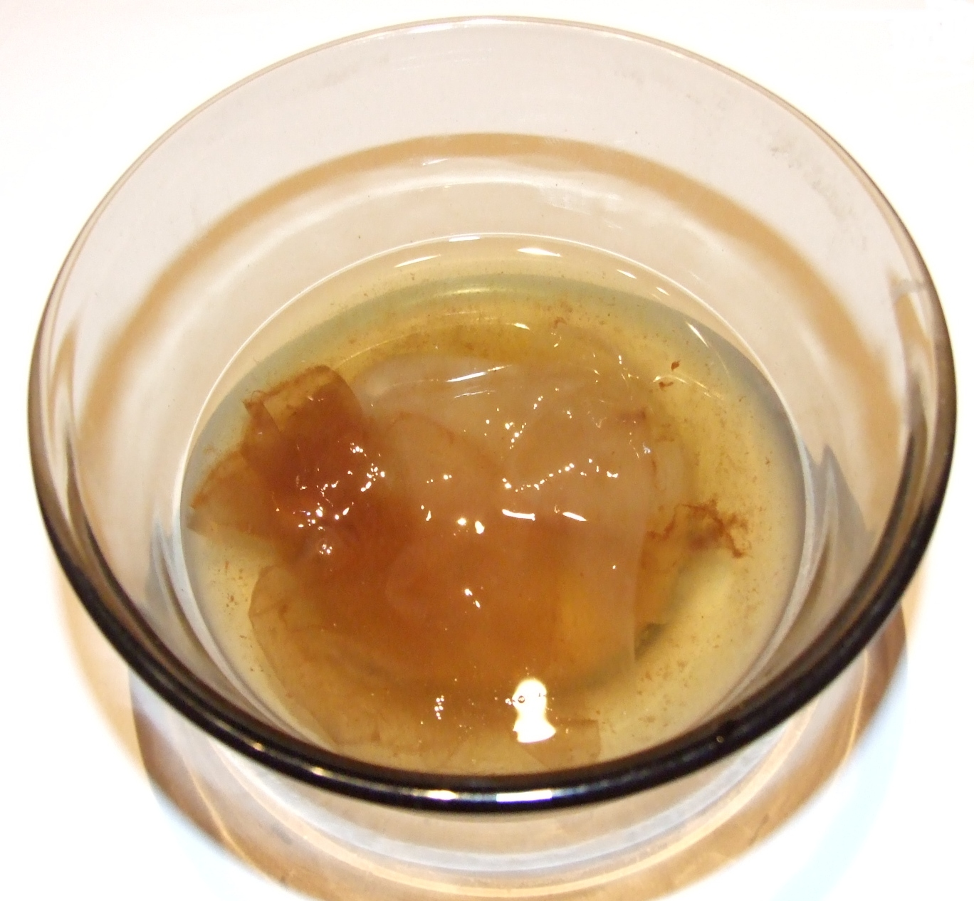 Mother of vinegar in a cup.